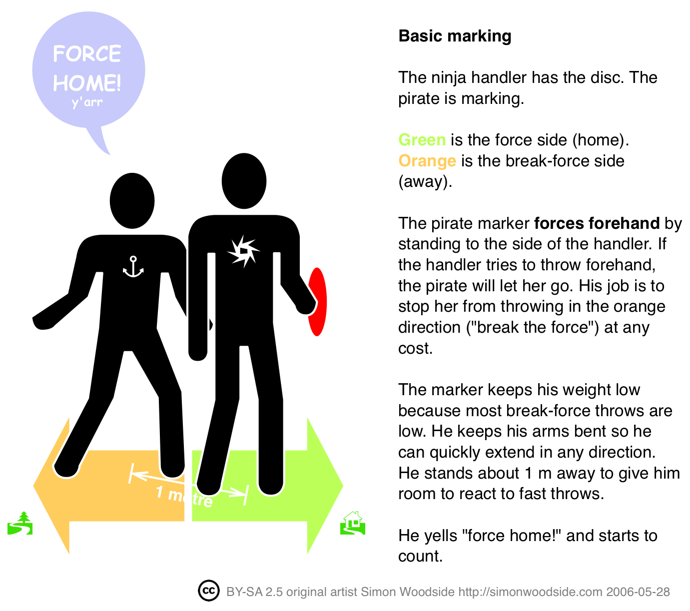 infographic showing how to mark with a force in Ultimate